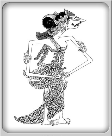 trijatha